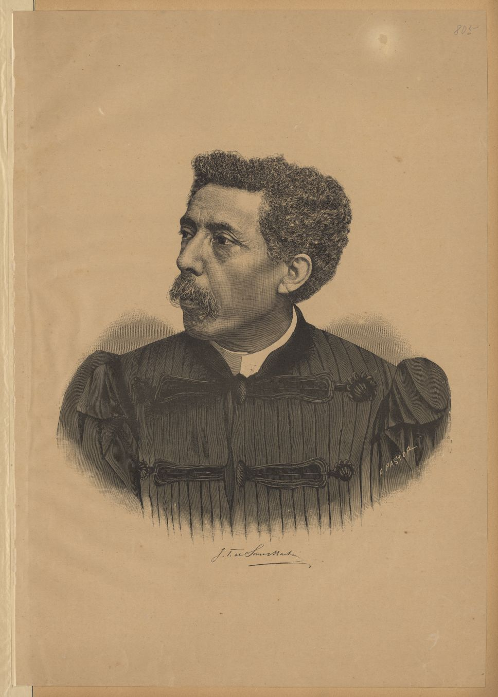 Portrait of José Tomás de Sousa Martins, a politician, physician and professor of Medicine in Lisbon, Portugal.